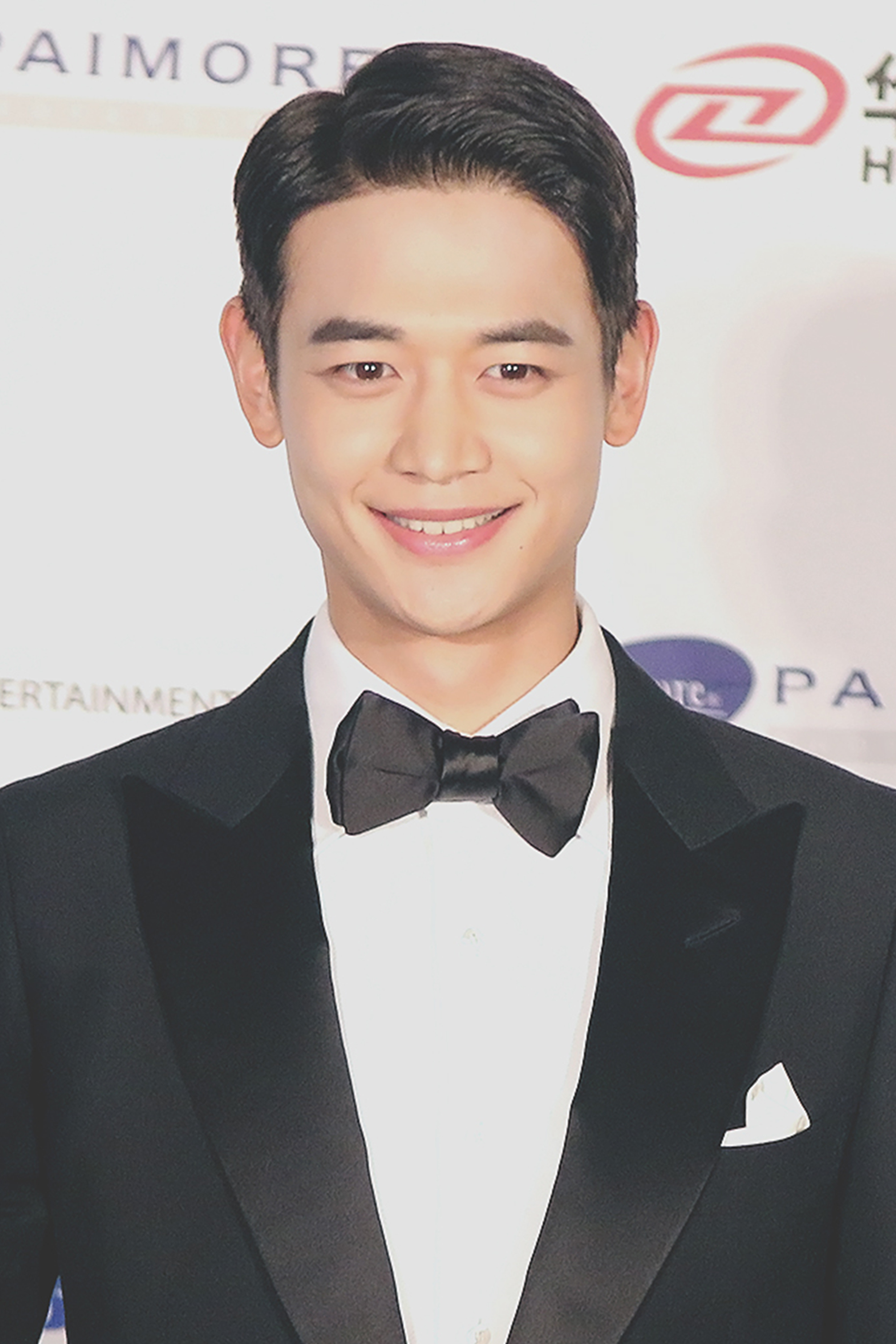 Choi Min-ho during the 54th Grand Bell Awards on October 25, 2017.